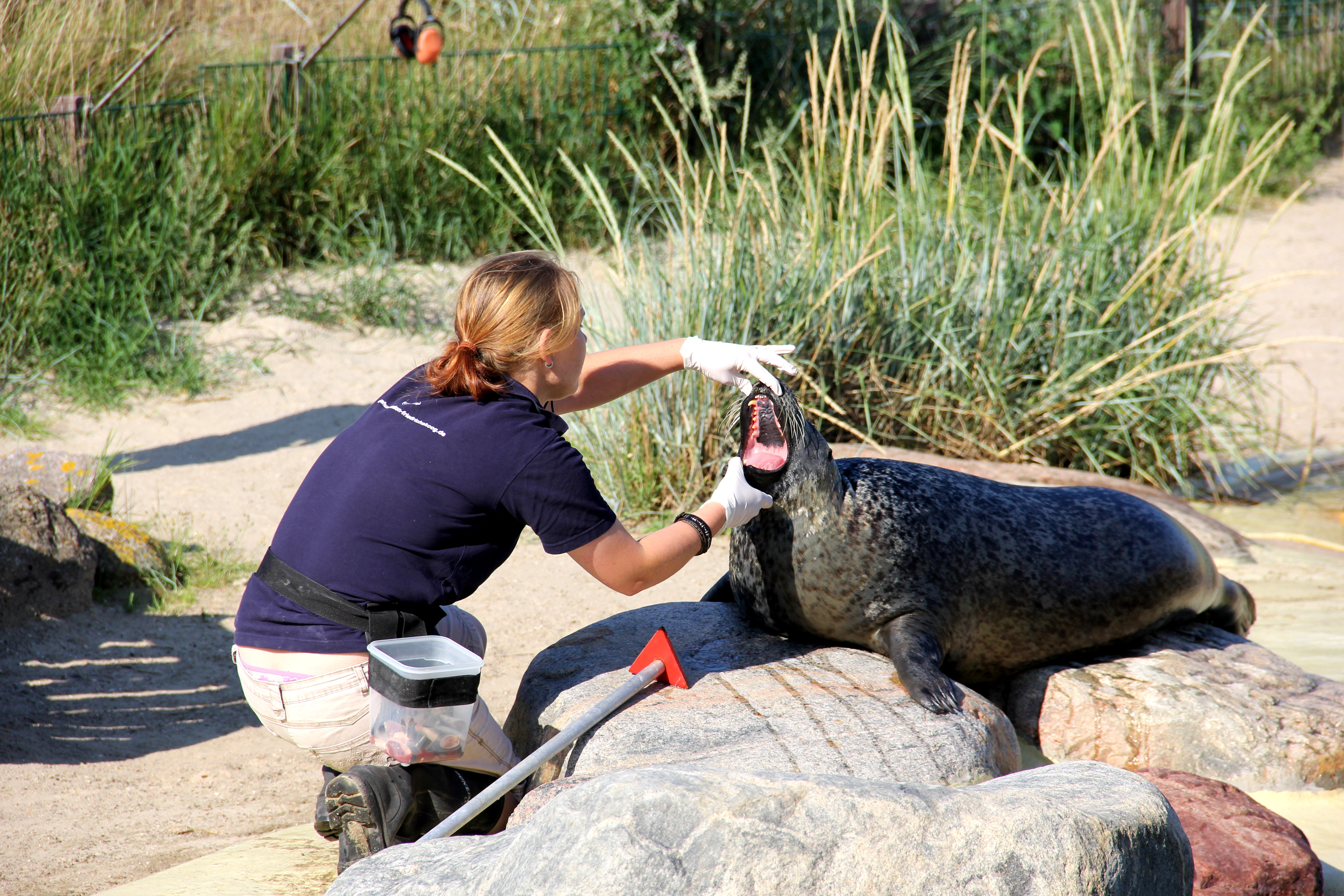 Check Up during public daily feeding